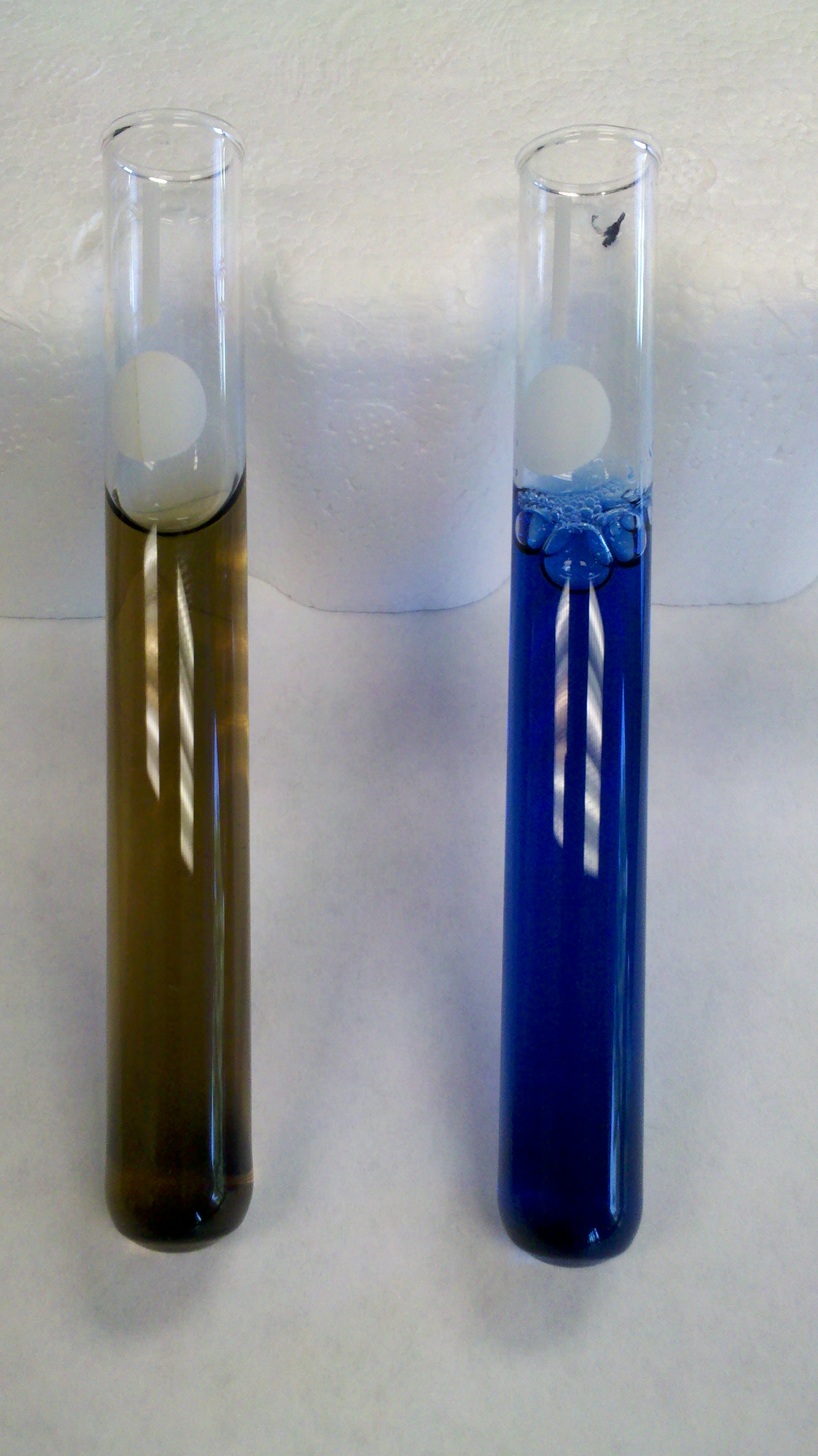 Test tubes demonstrating the Bradford protein assay